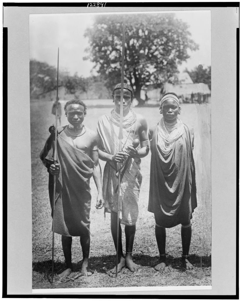 Taken from - PD because it's the work of the US government, and likely because of its age as well